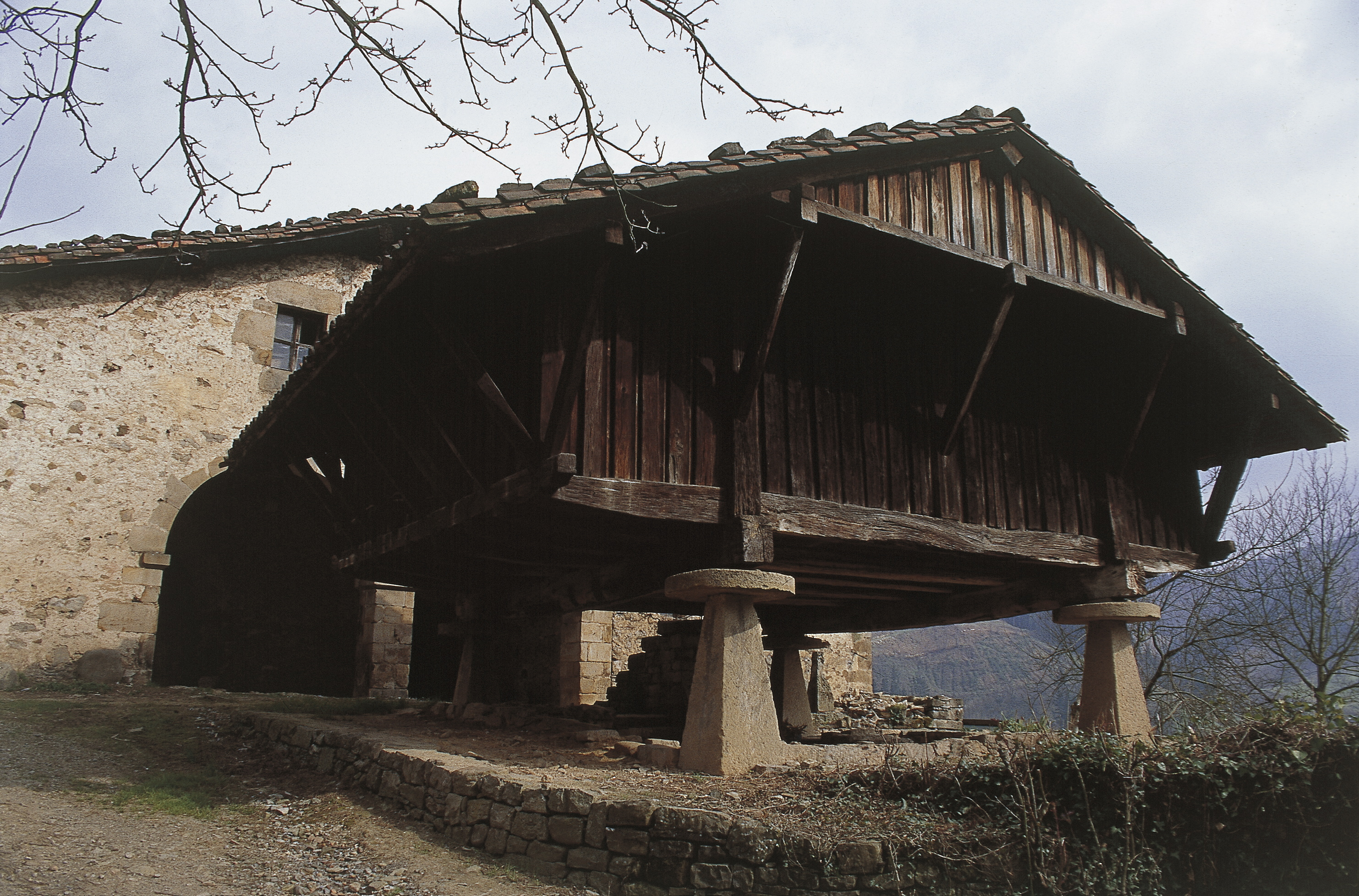 Agarre farm's granary. Bergara, Gipuzkoa, Basque Country.